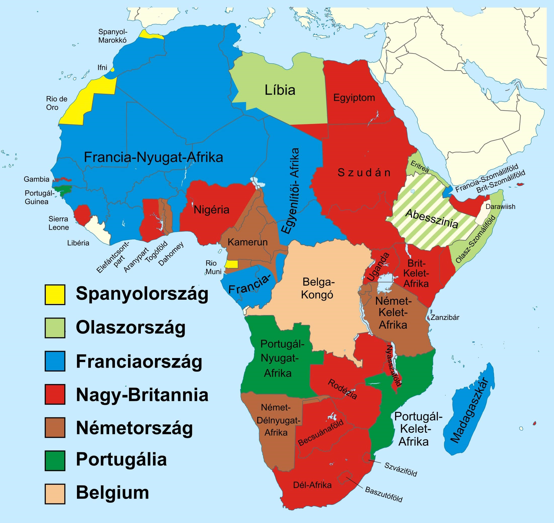 Draft_map_of_the_colonies in Africa_in_Hungarianlabel QS:Len,"Draft_map_of_the_colonies in Africa_in_Hungarian" label QS:Lhu,"Afrikai gyarmatok 1914-ben, magyar feliratokkal"